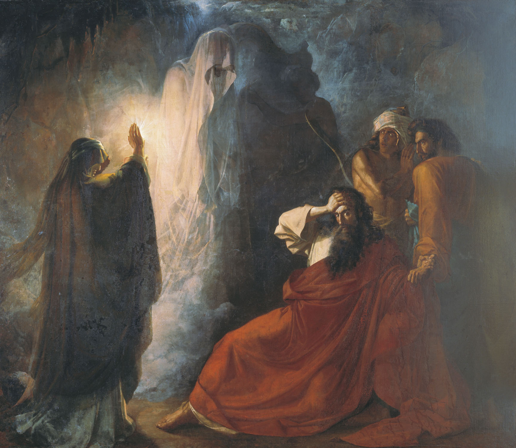 The Shade of Samuel Invoked by Saul